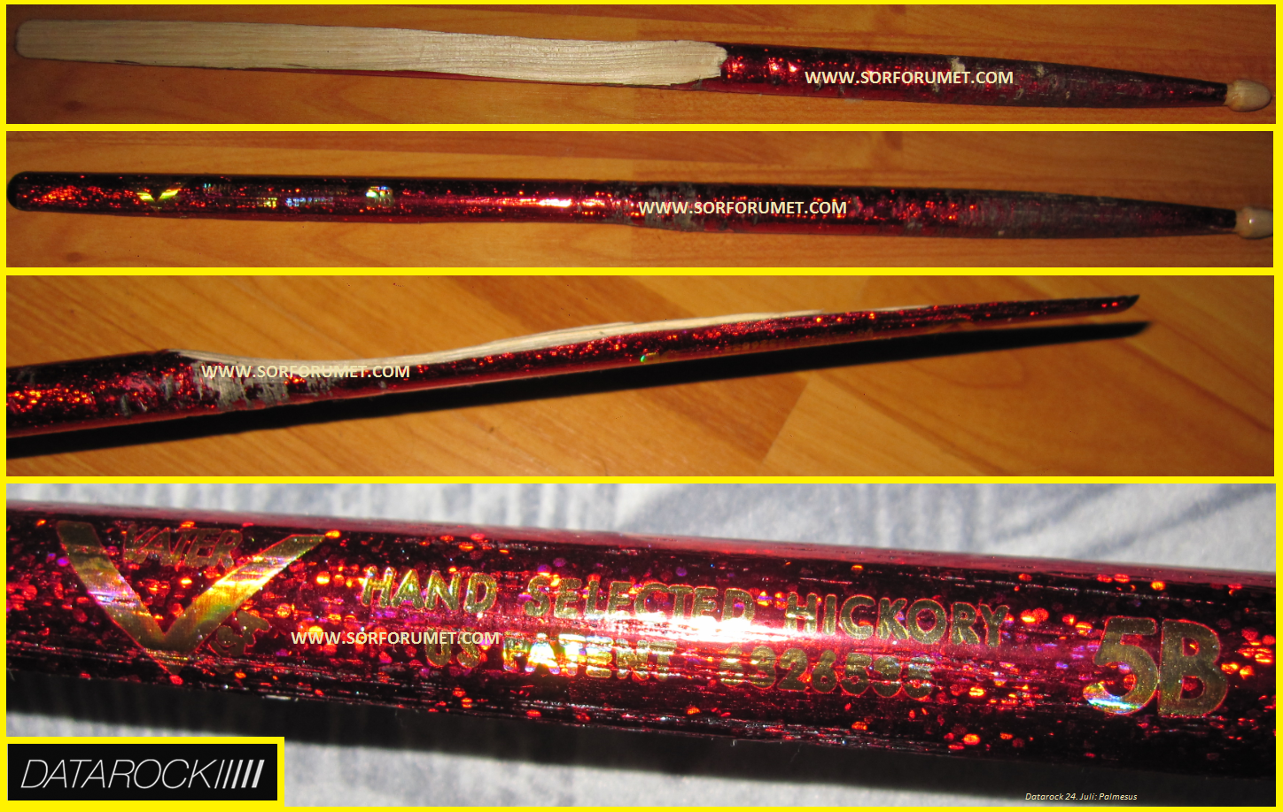 The drum stick was thrown out to the audience of drum man under Datarock concert at palm 2010 (24 July).